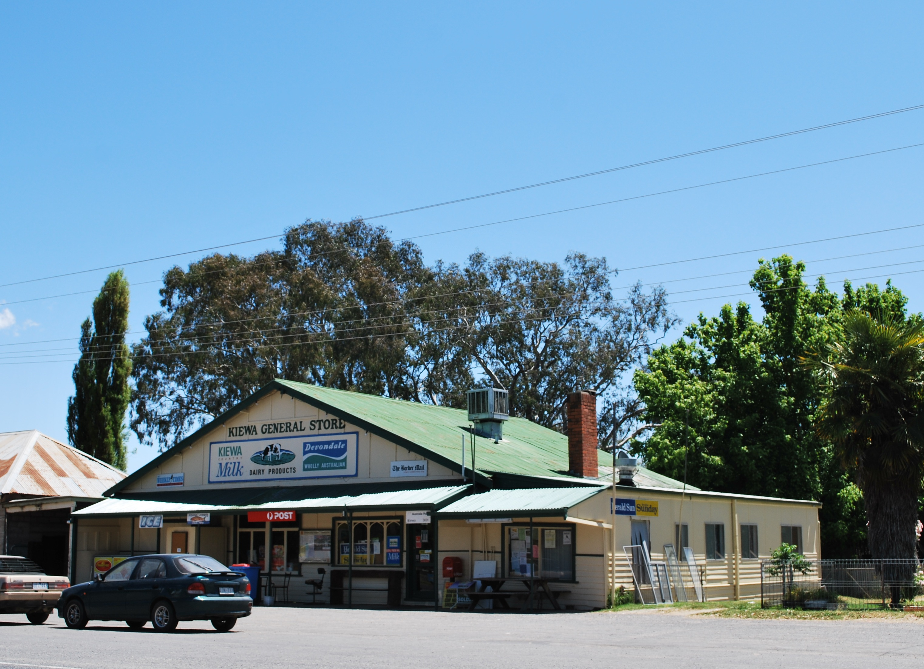 General store and post office at Kiewa, Victoria